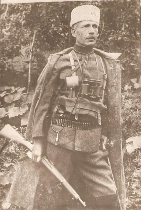 Portrait of IMARO member Stefan Petkov, known as Sirketo